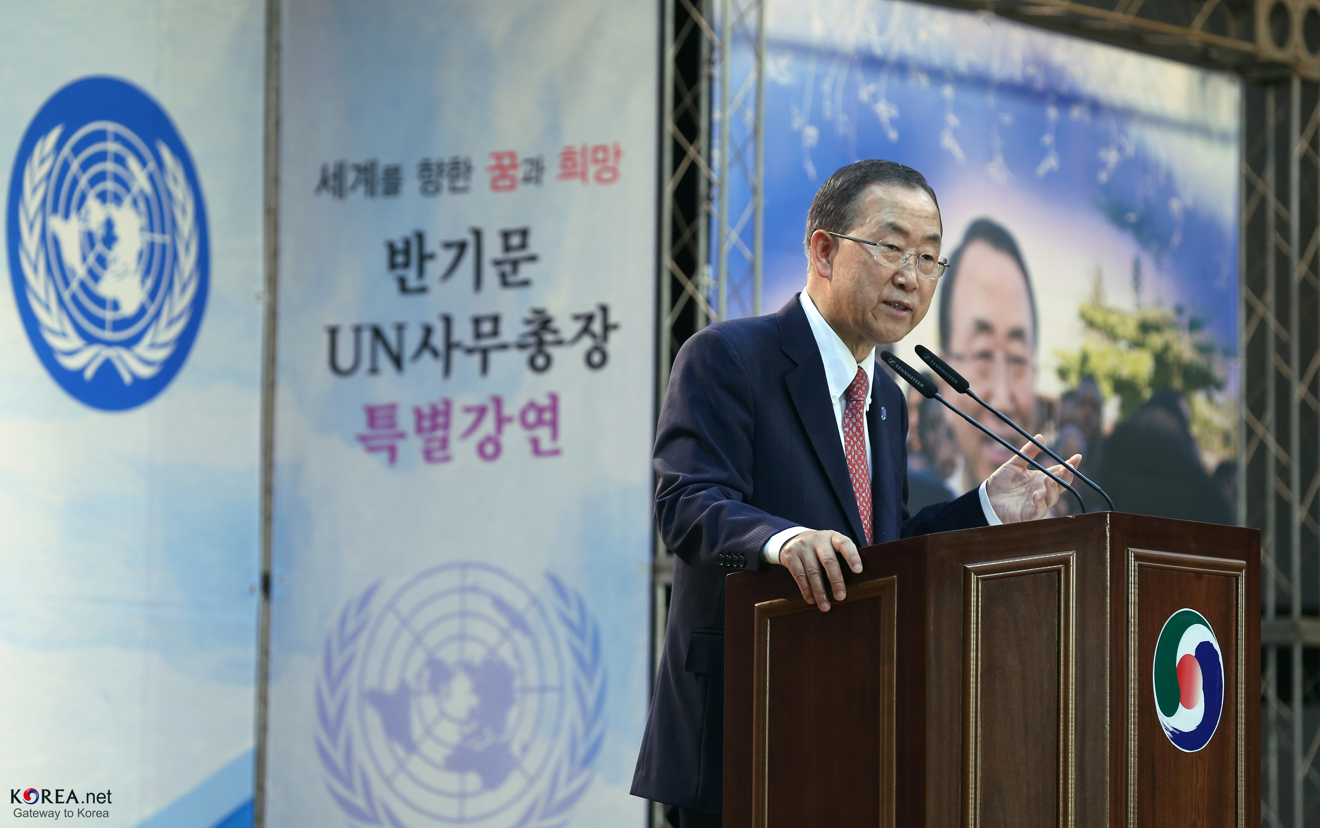 UN Secretary General Ban Ki-moon’s Special Lecture for Korean youth. Chungju City Hall, Chungcheong Province, Korea